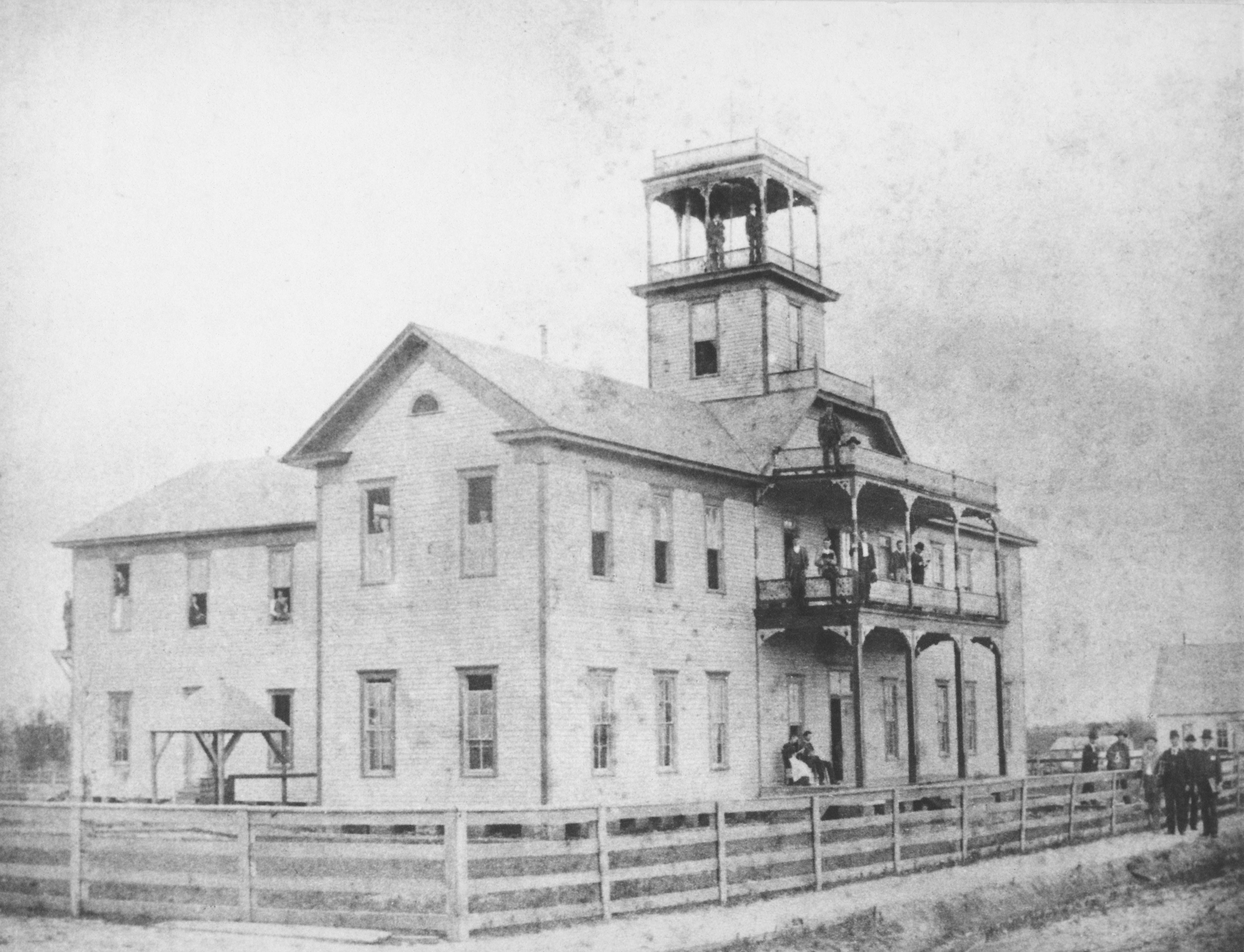 The original East Texas Normal College building in Cooper, constructed in 1889 by the Cooper Joint Stock School District. The Cooper campus offered courses from the elementary through the college level. The two-story frame building housed not only the school but the Mayo family. A fire destroyed the building in 1894, one of the events that prompted the relocation of the campus to Commerce.